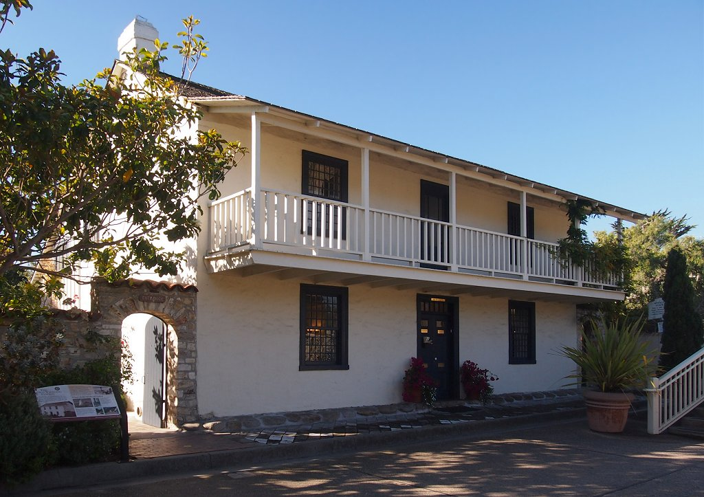 Old Whaling Station, Monterey State Historic Park, Monterey, California, USA. The diamond-patterned walkway along the front of the building is made of whale vertebrae. Viewed from the northeast.